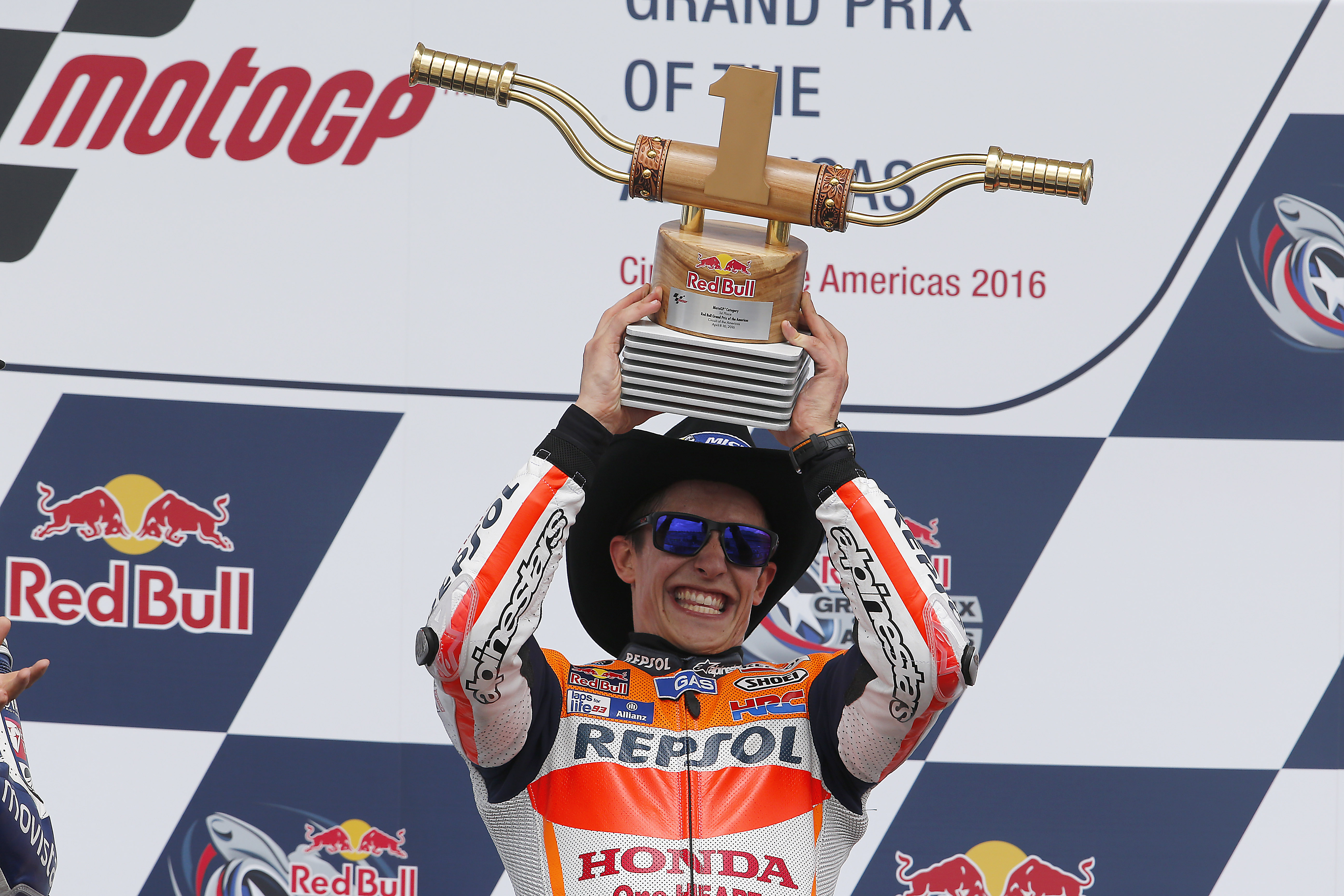 Marc Márquez, lifting his first place trophy on the podium at the 2016 Grand Prix of the Americas.